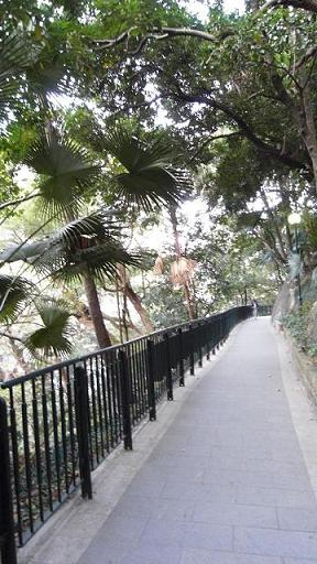 Hong Kong Zoological and Botanical Gardens, Midlevels, Hong Kong